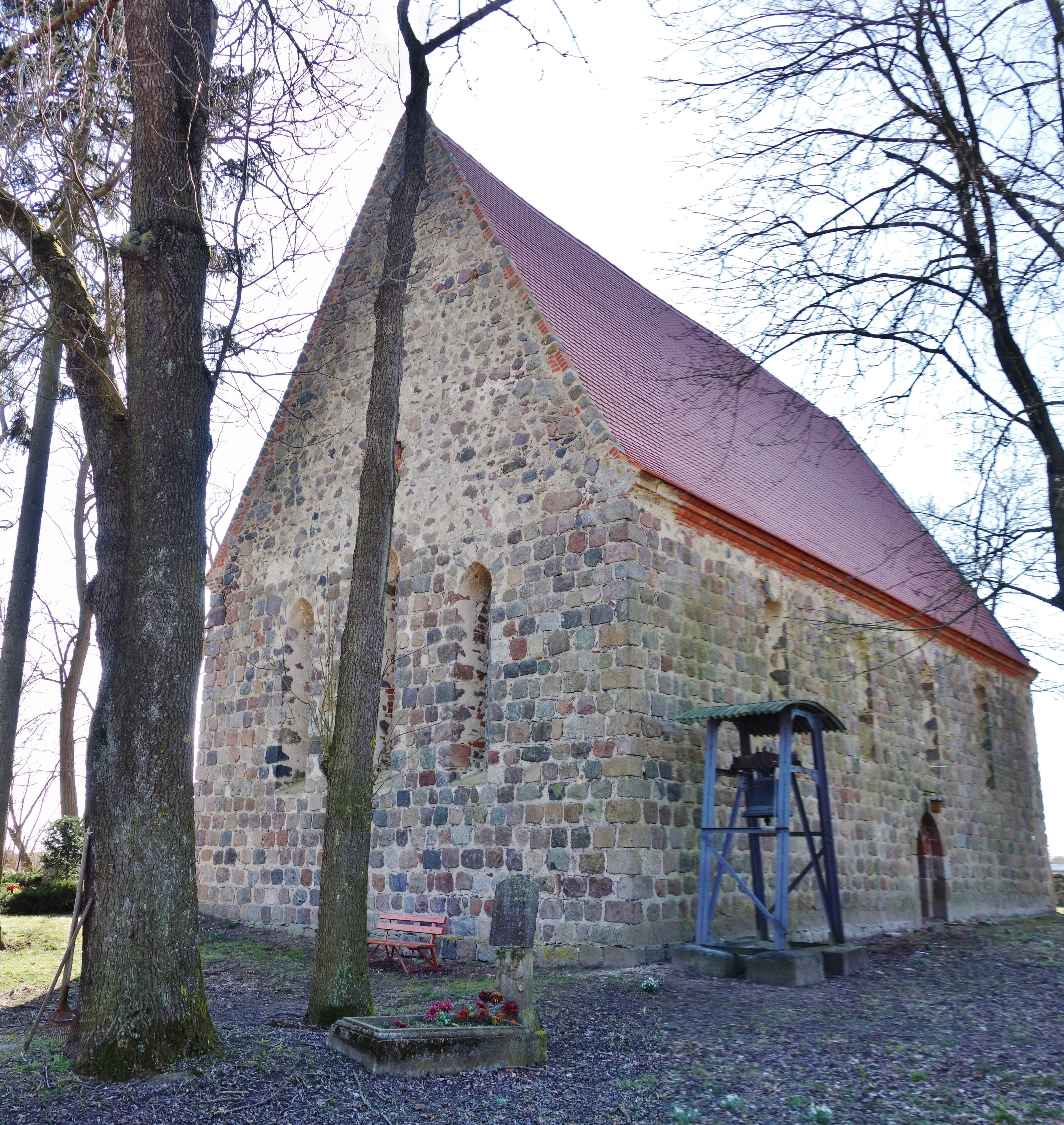 North-eastern view of the church in Ziemkendorf , Randowtal municipality , Uckermark district, Brandenburg state, Germany